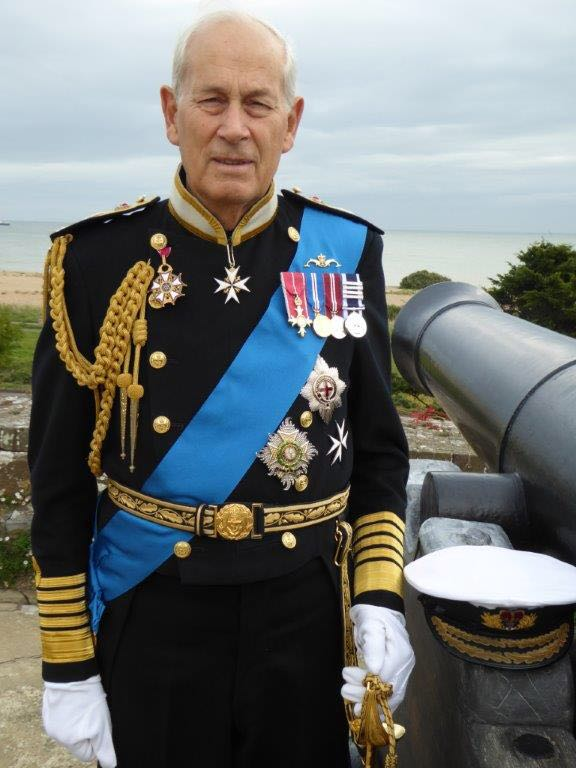 Lord Boyce in regalia